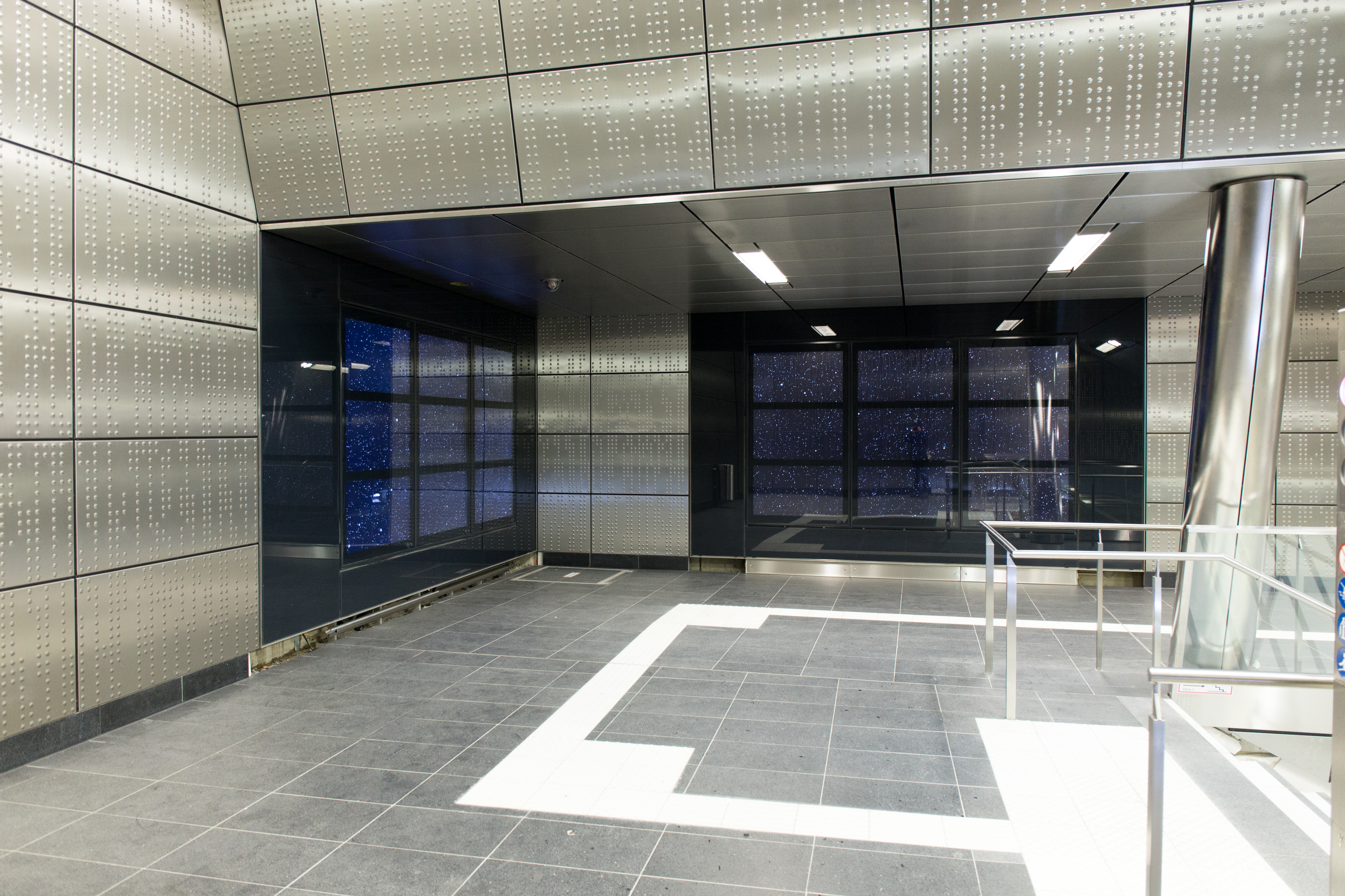 Wehrhahnlinie, Zwischengeschoss, U-Bahnhof Benrather Straße